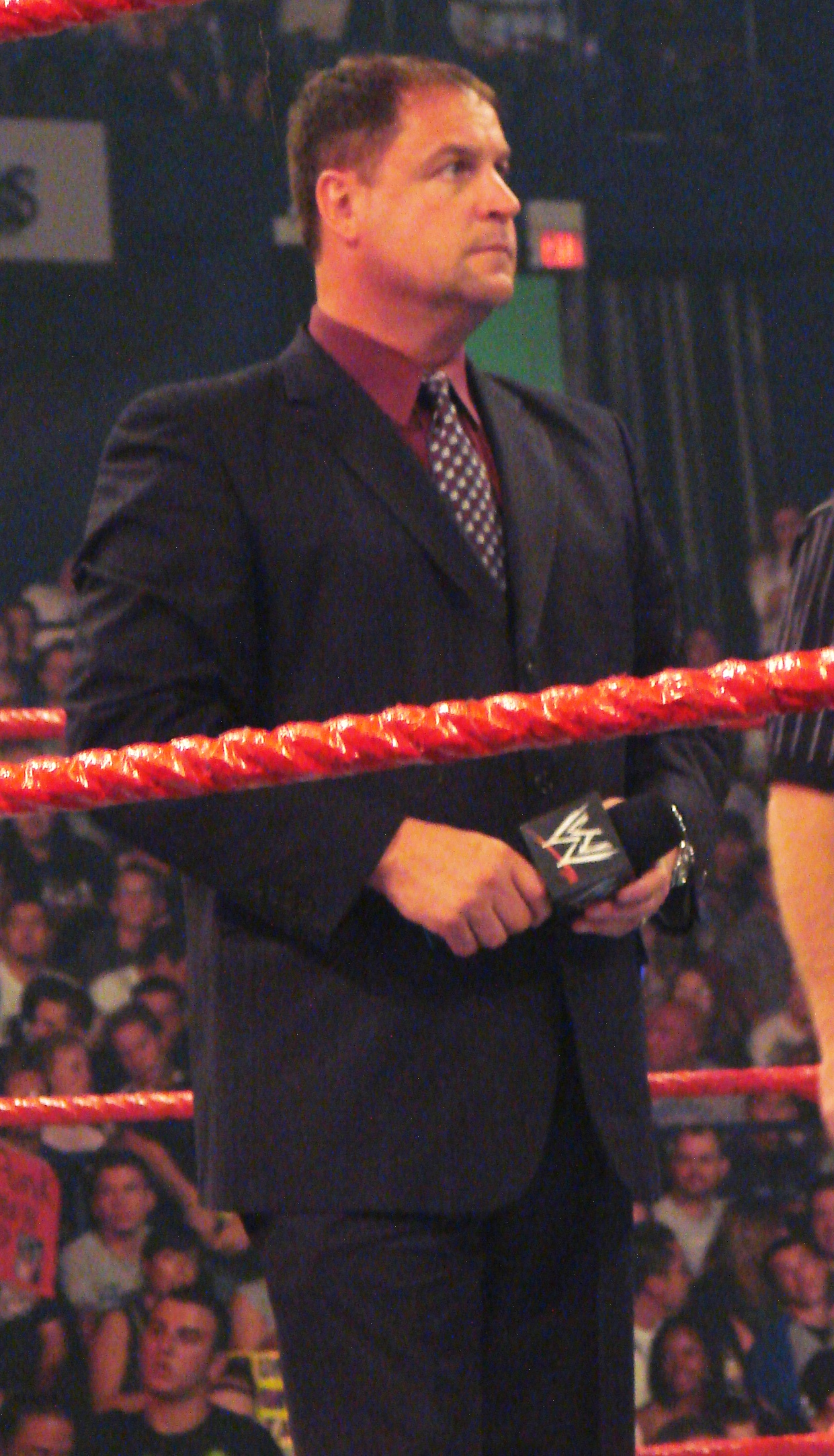 Tony Chimel at WWE No Mercy 2007. Allstate Arena, Rosemont, IL, October 7, 2007. Taken by me, cropped, rotated, and brightened.